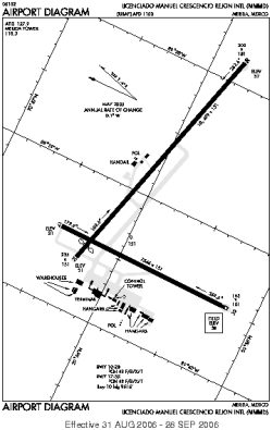 Diagram of the "Manuel Crescencio Rejón" Internacional Airport, from Mérida, Yucatán, México